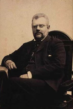 Carl Emanuel Møller (1844-1898), Danish writer and dramatist